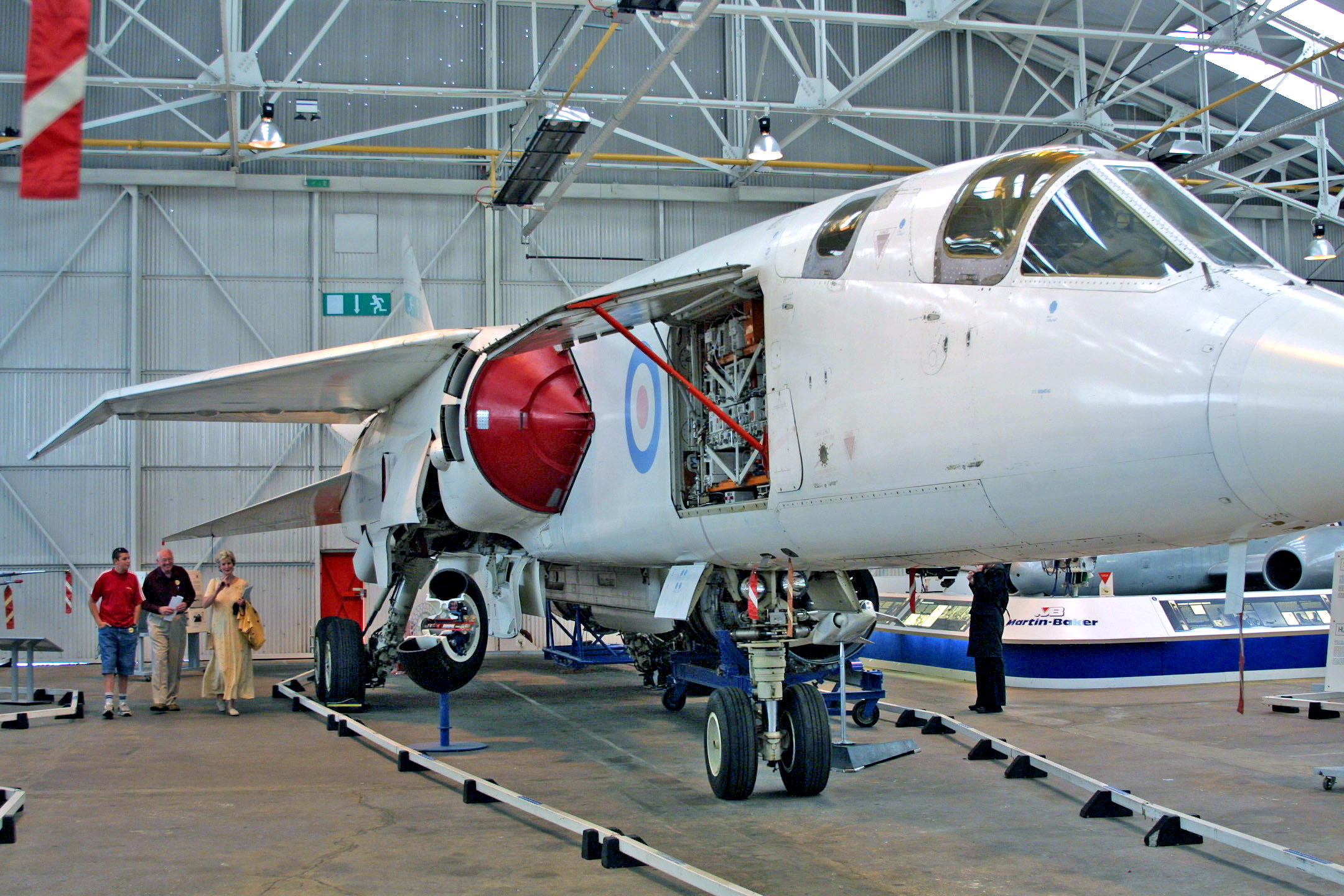 BAC TSR2 at RAF Museum Cosford, 2002, taken & submitted by Paul Maritz (paulmaz)